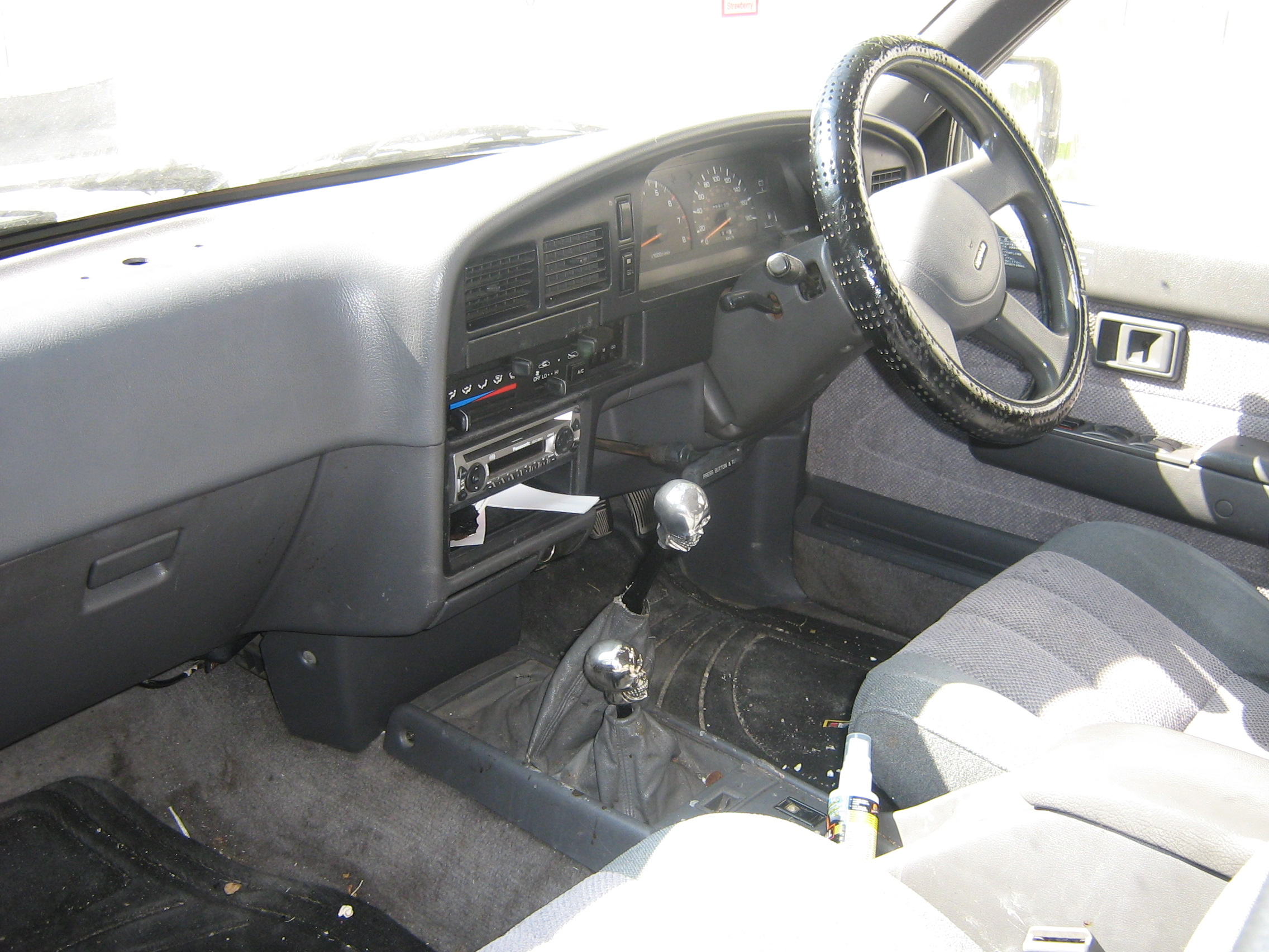 1989 Toyota Hilux SURF 4x4 Its a bit of a mongrel as it started life out with a diesel 2.4L engine which was swapped out for a 22R-E (recently rebuilt). Its got 5spd gearbox and right hand drive of course.